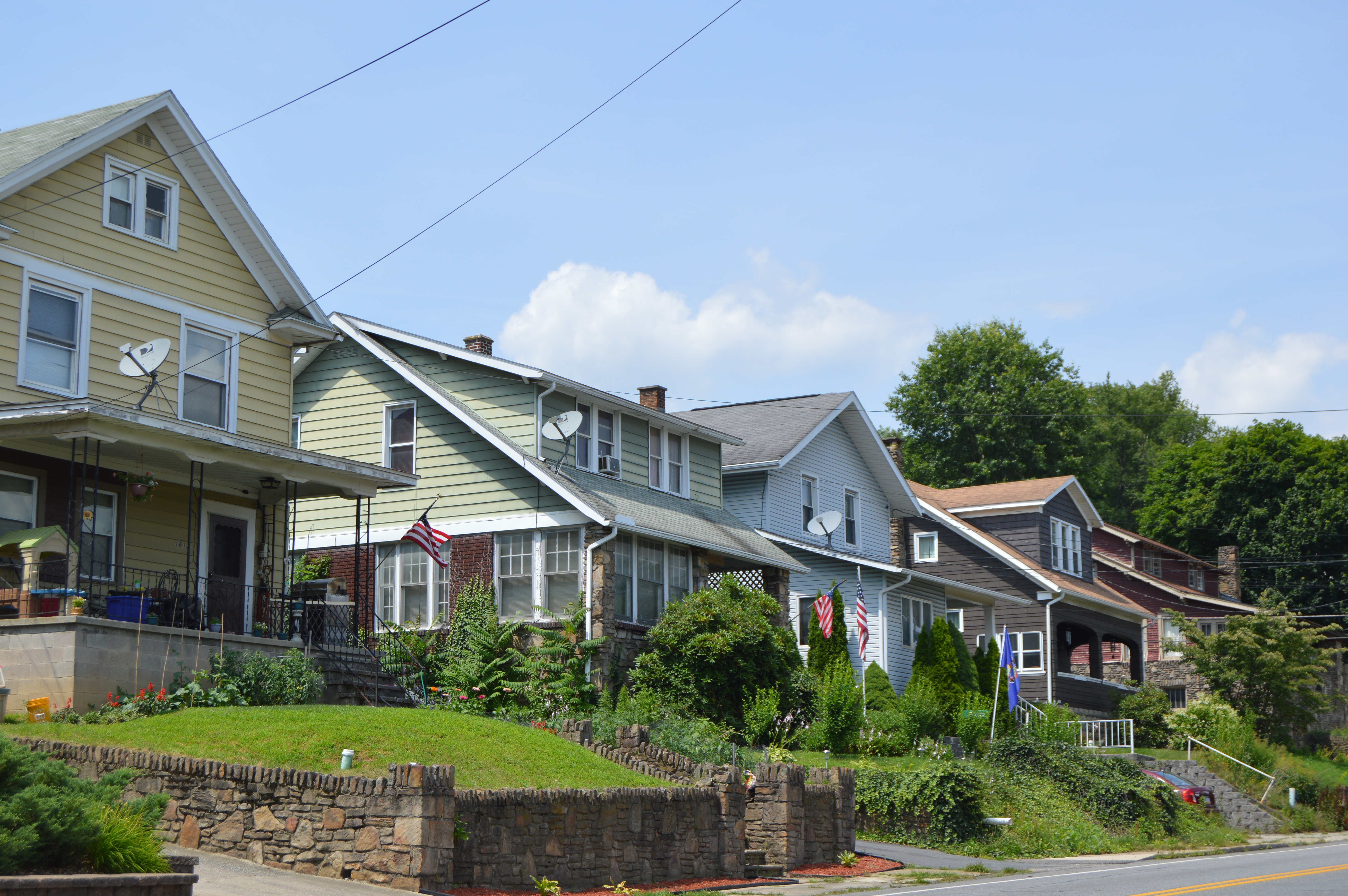 Houses on Franklin Street between Hystone Avenue and Midway Drive in Ferndale, Pennsylvania, United States.